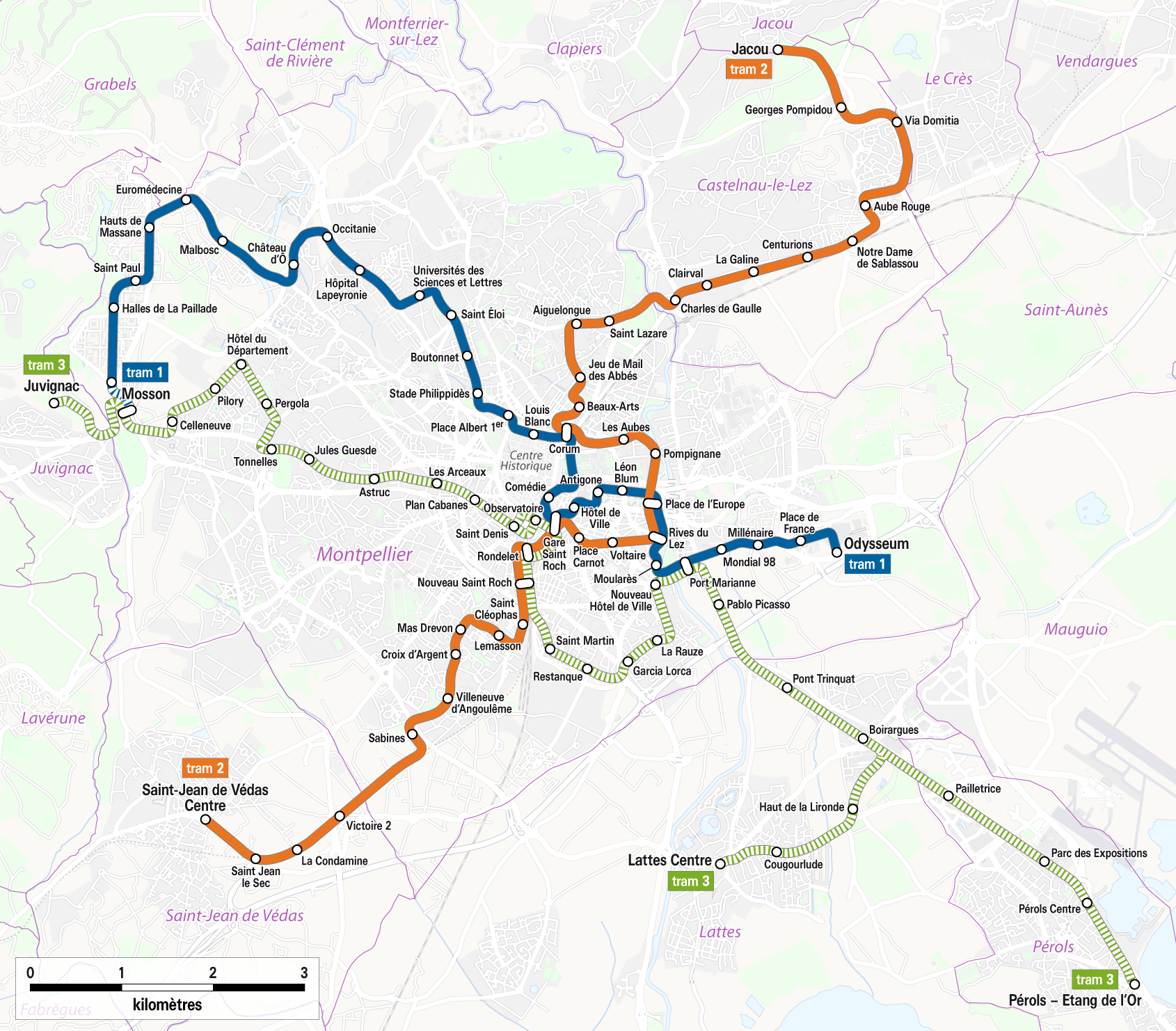 Map of the Montpellier streetcar network 2010